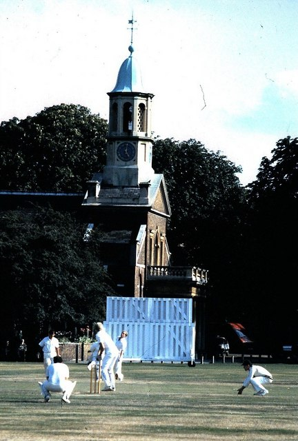 The church on Kew Green (1986) St Annes, Kew, as a backdrop to the cricket.